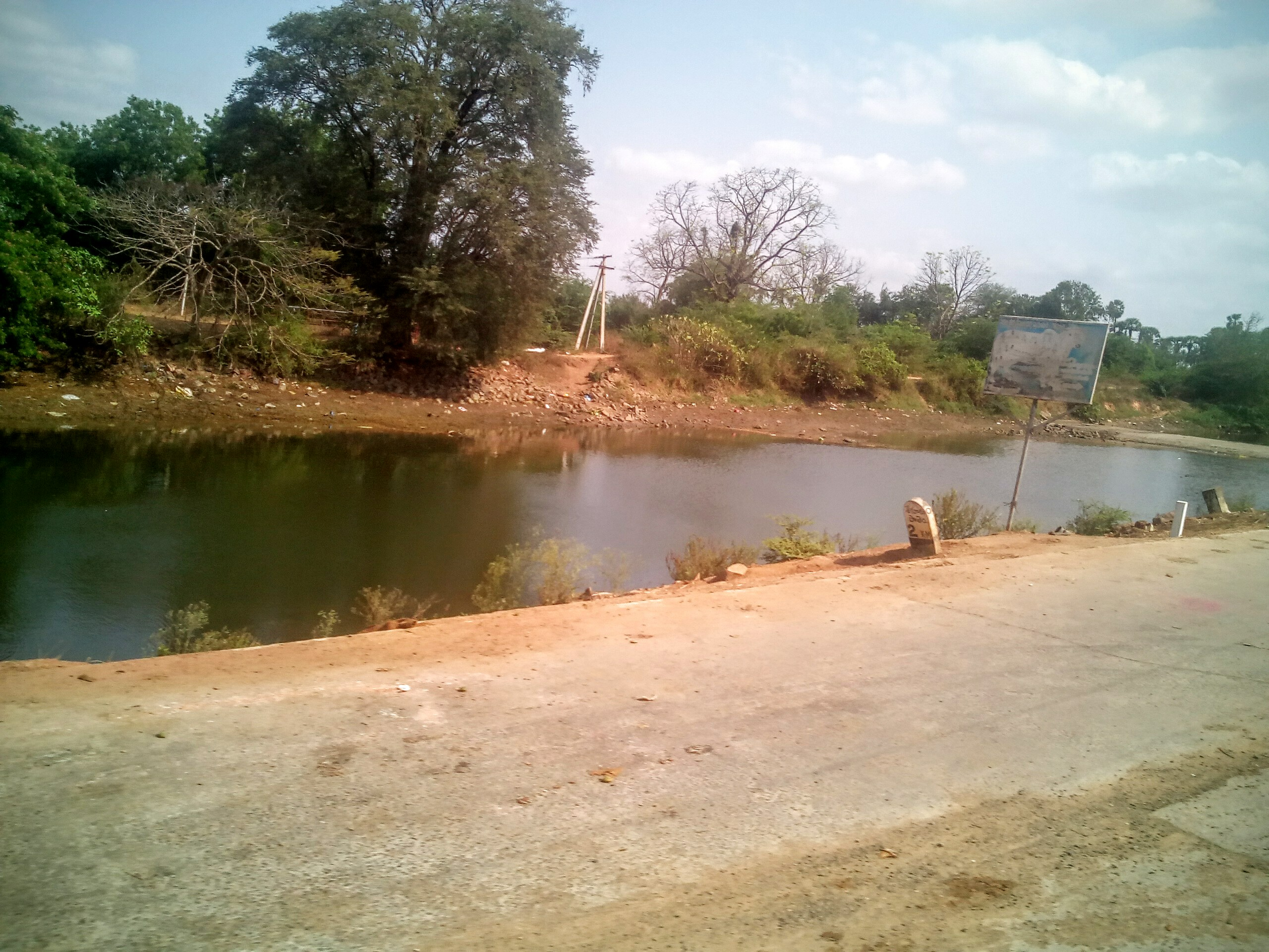 Kommamuru Canal at Sangam Jagarlamudi